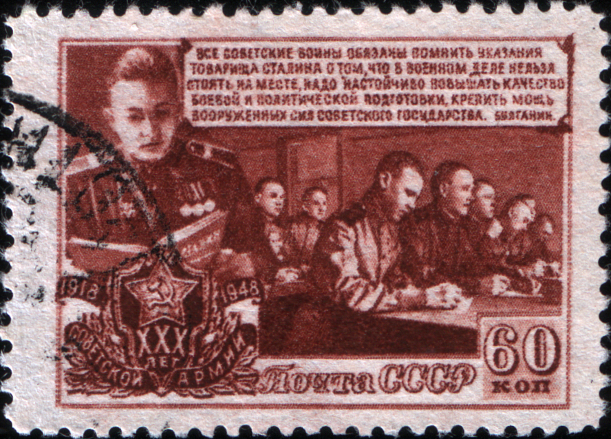 Stamp of USSR, 30th Soviet Army, 1948, CPA #1242. There is a citation from Nikolai Bulganin that mentions Stalin.